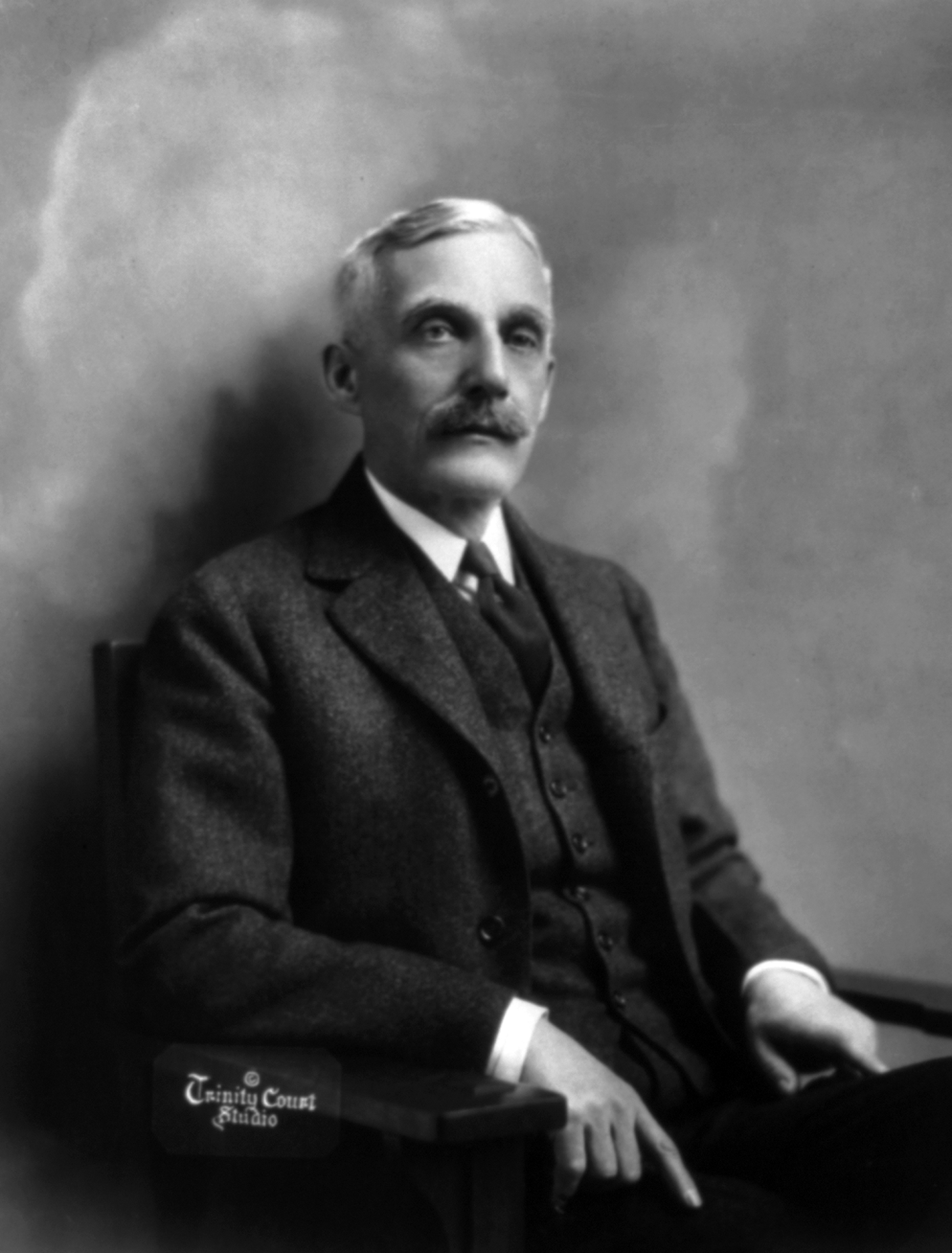 Photographic portrait of American banker, steel executive, and civil servant Andrew William Mellon. The image was used by Mellon in his duties as United States Secretary of the Treasury.